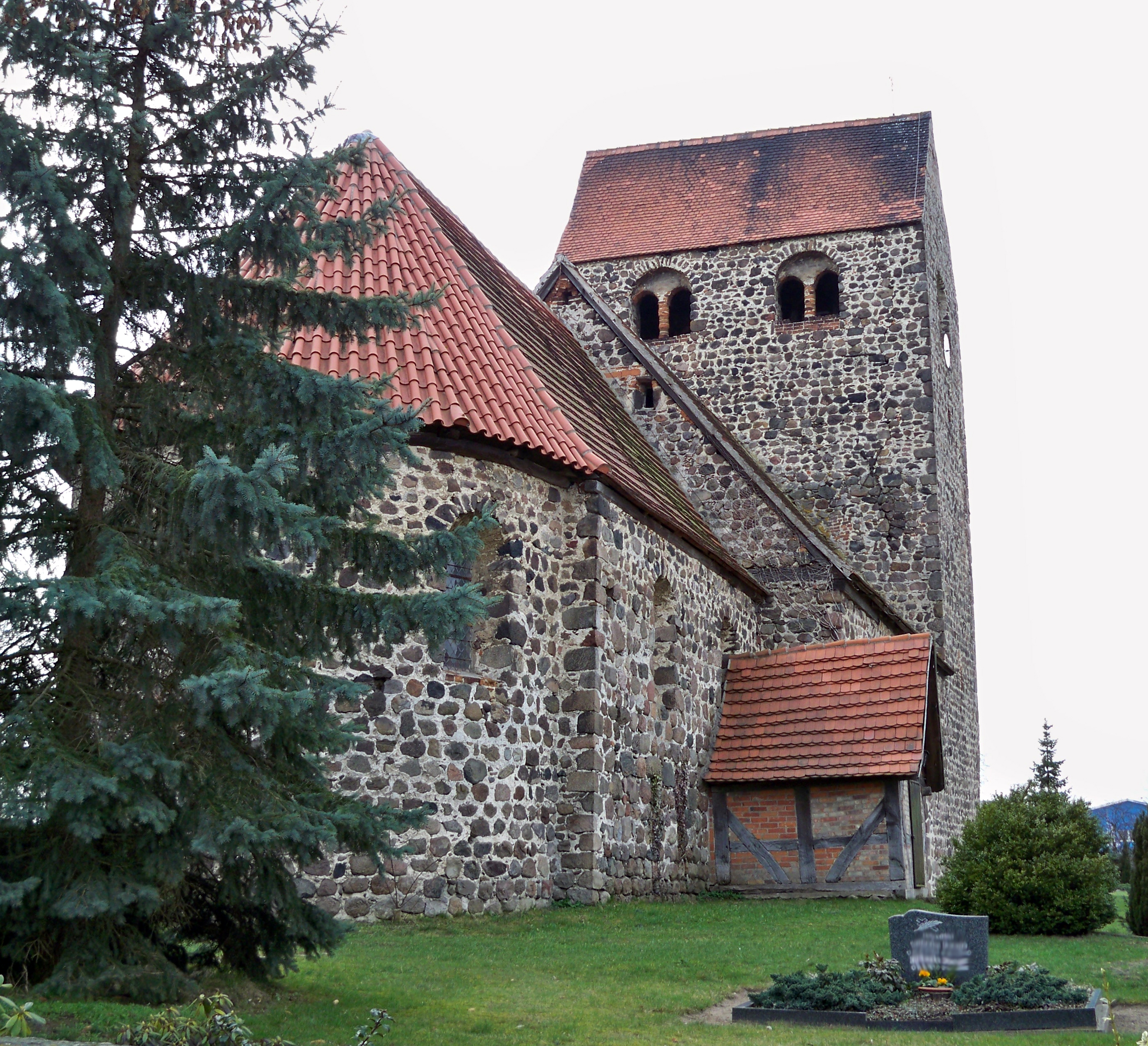 Dambeck church from East